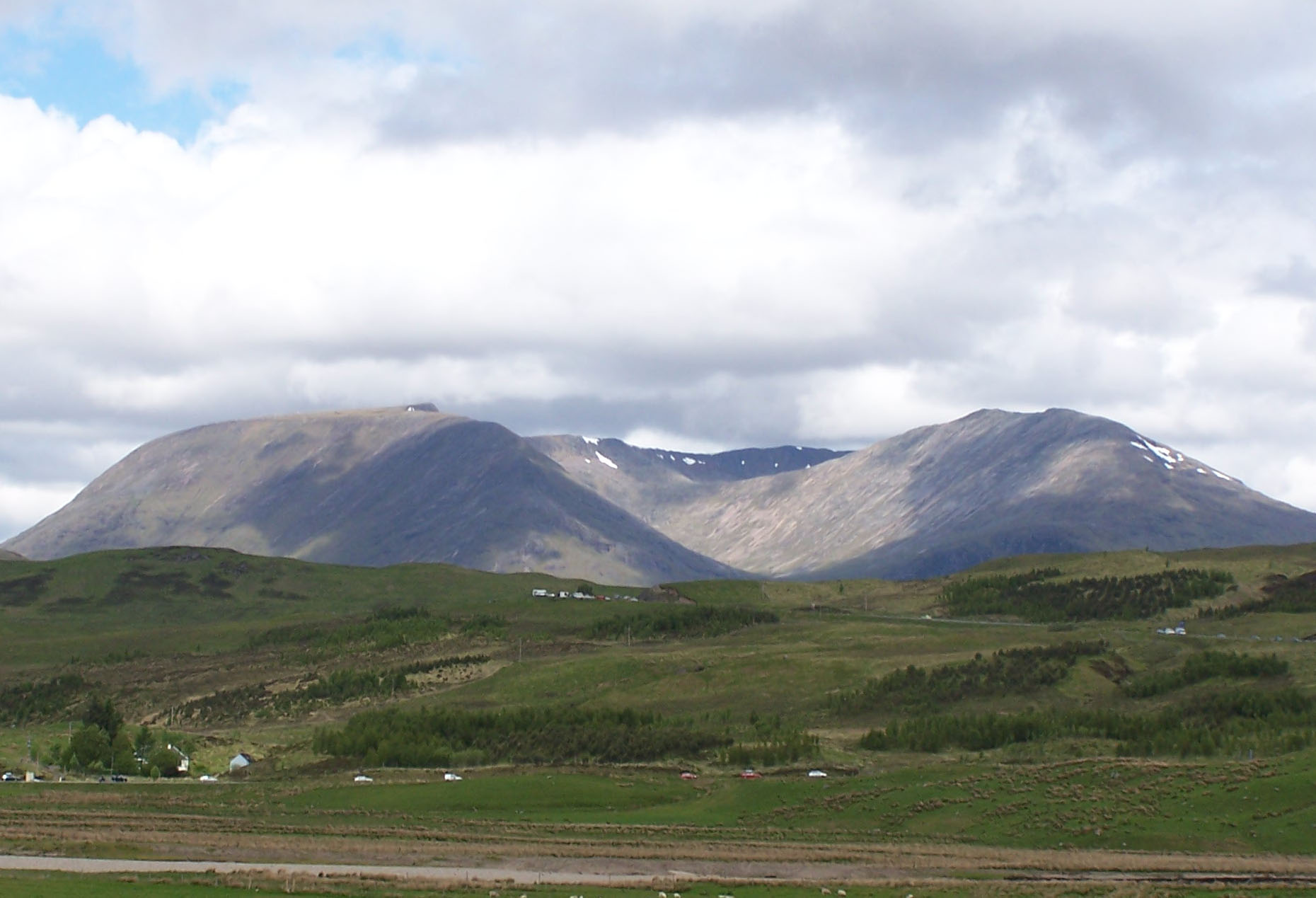 Personal picture taken by Mick Knapton